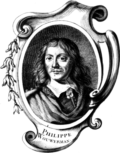 Portrait of Philips Wouwerman (1619-1668), Dutch painter